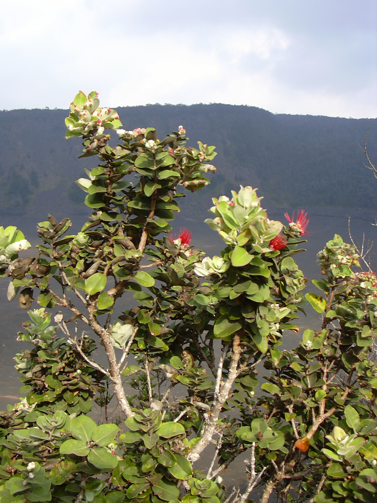 Metrosideros polymorpha (flowers). Location: Hawaii, HAVO